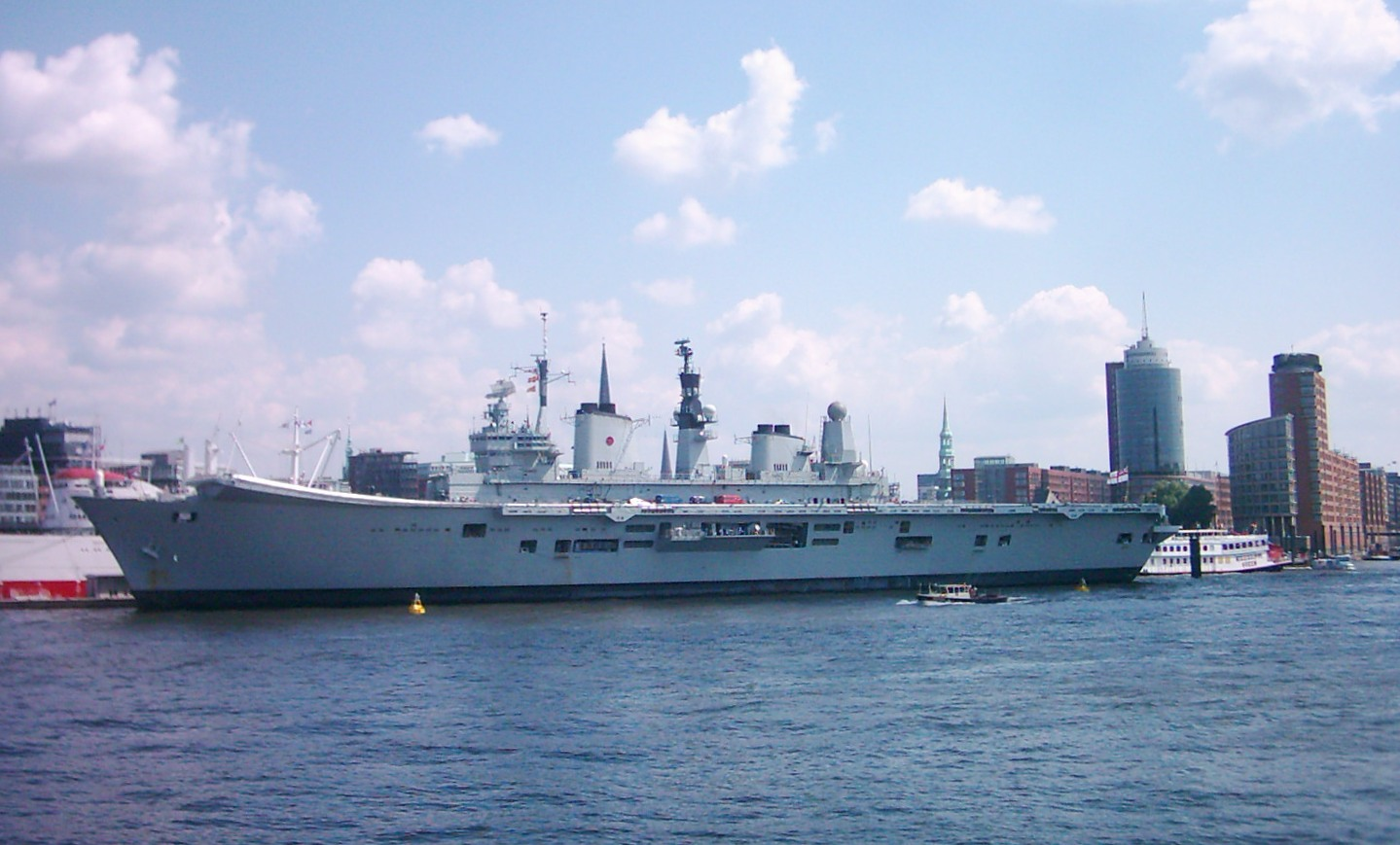 The light aircraft carrier HMS Ark Royal at the port of Hamburg, Germany, 30.05.-03.06.2007.